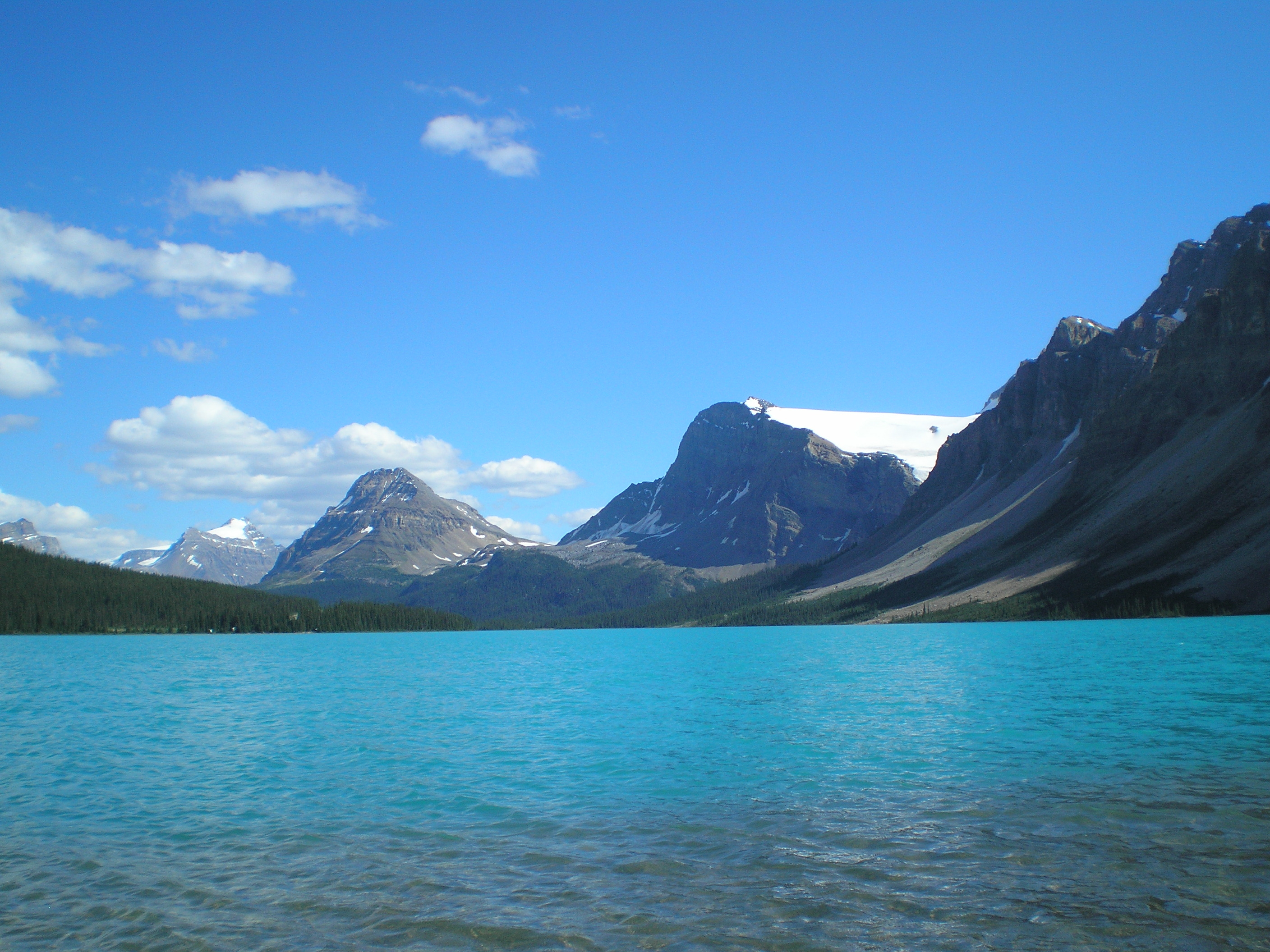 Bow Lake and Crowfoot Glacier, Banff National Park, Alberta, Canada.